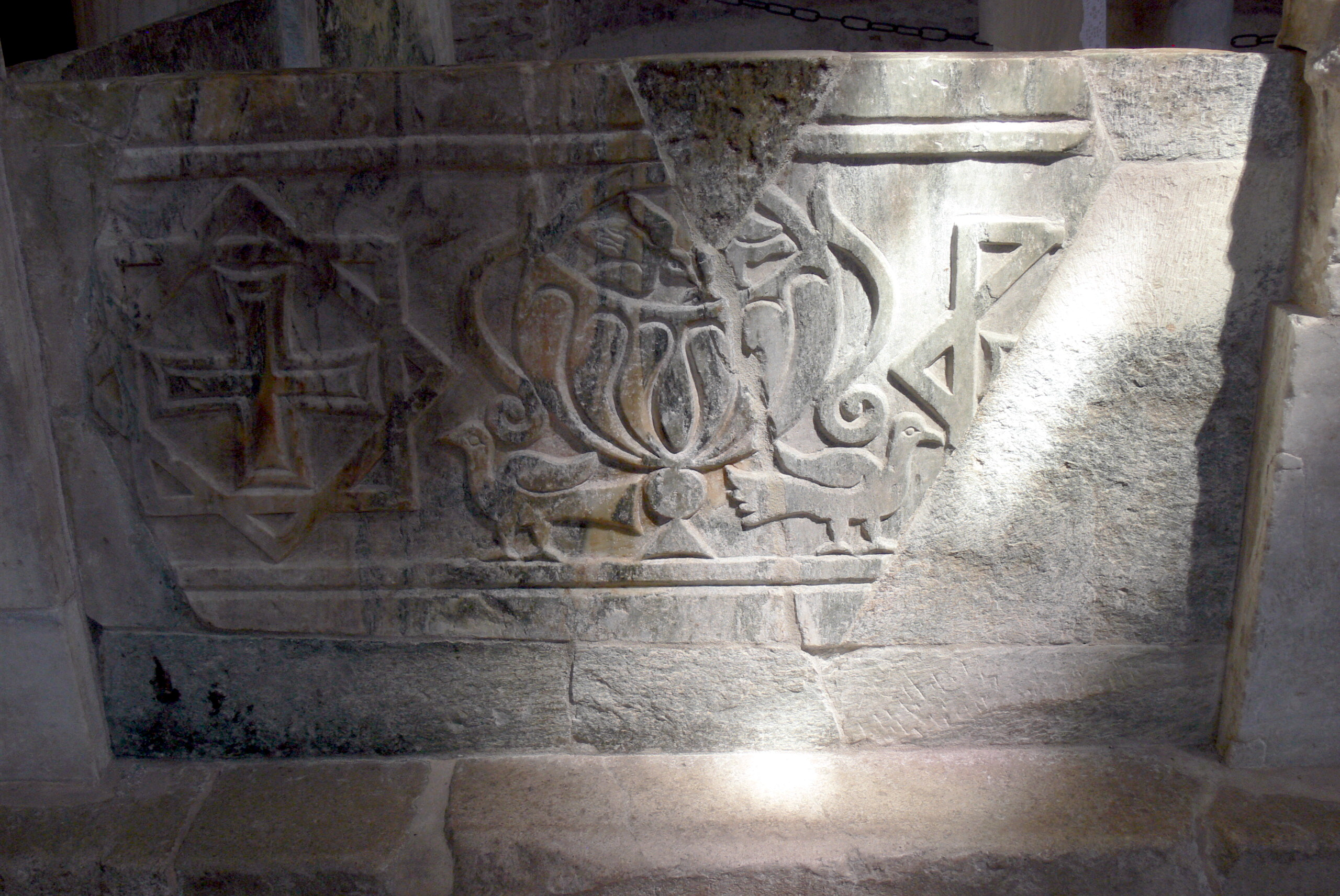 Grado, Italy. Santa Maria delle Grazie: Rood screen ( 6th century ) - Relief of kantharos with doves and Greek cross.